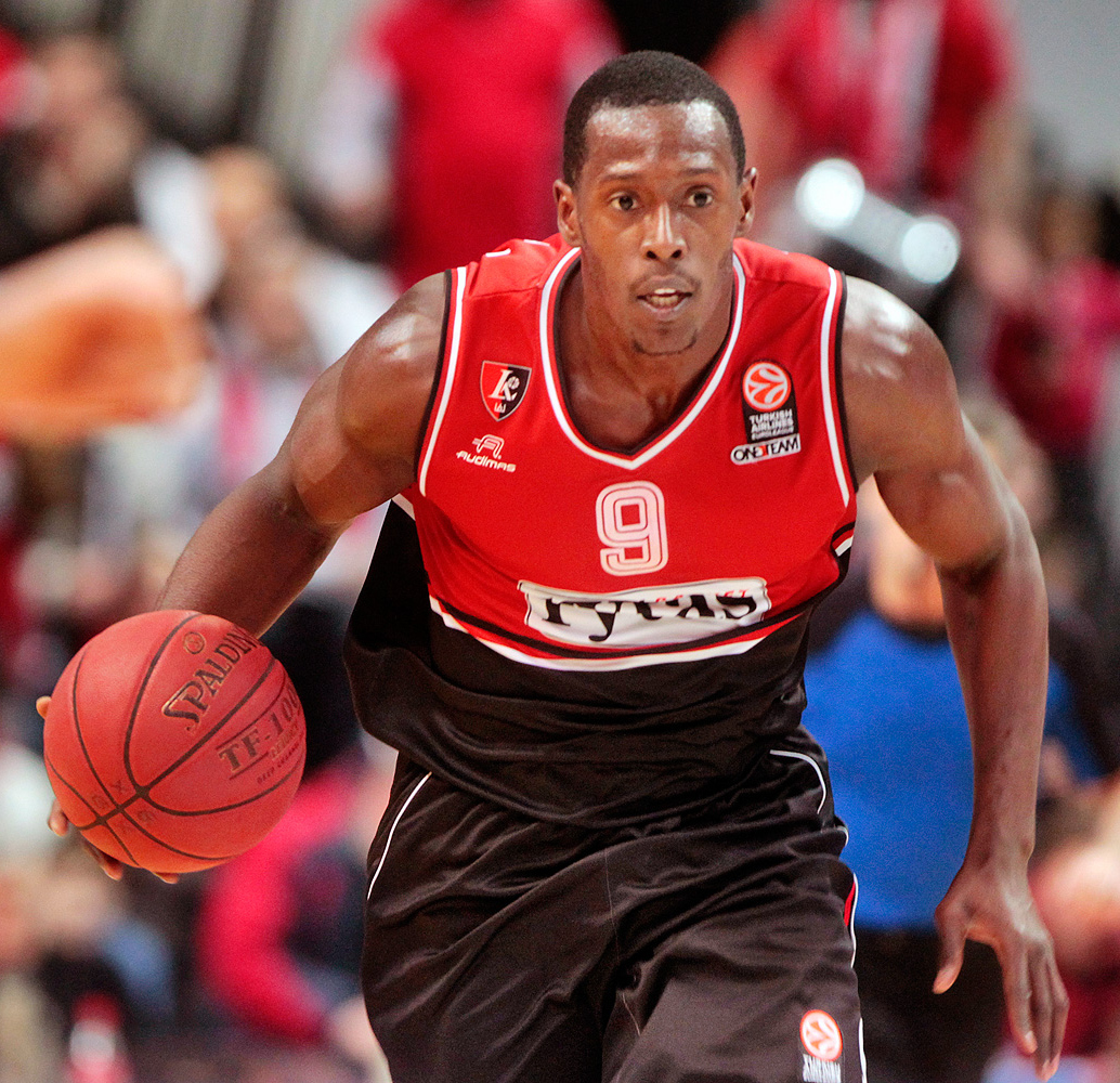 Basketball player Juan Palacios